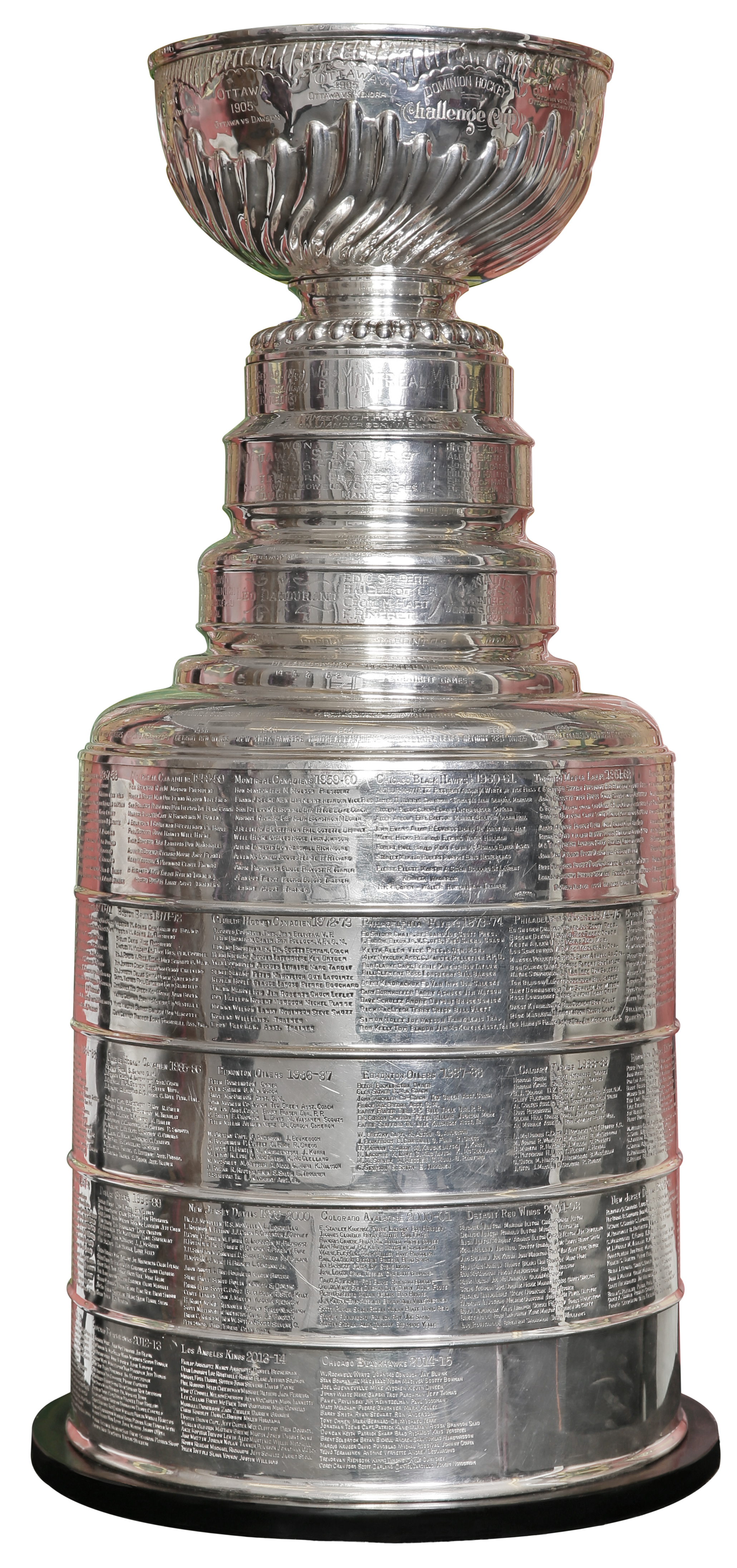 Stanley Cup in 2015. Includes the names of the 2014–2015 champion Chicago Blackhawks.